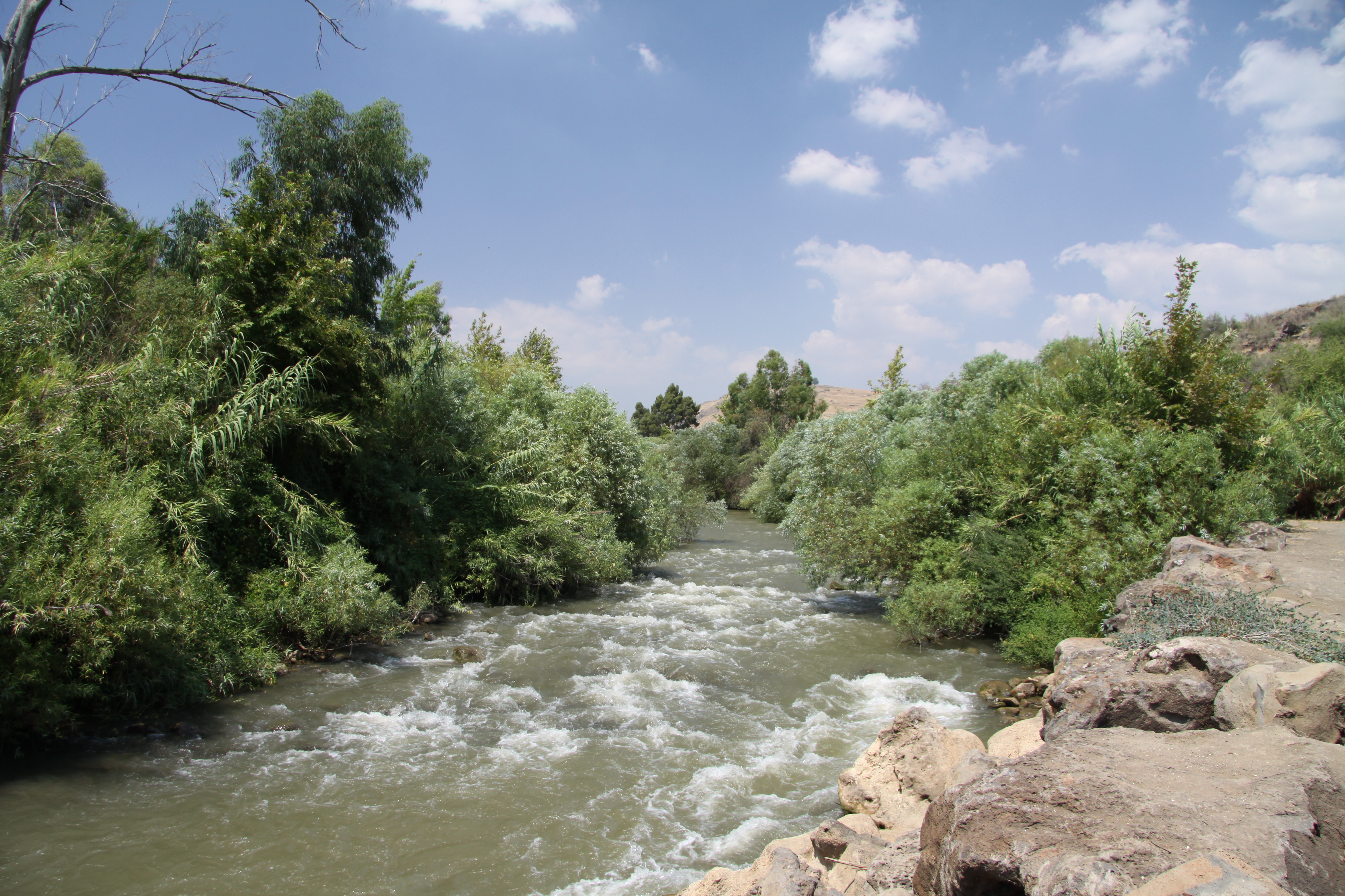 Jordan River park in Israel during summer 2011. Jordan River - Google Maps - Google Earth